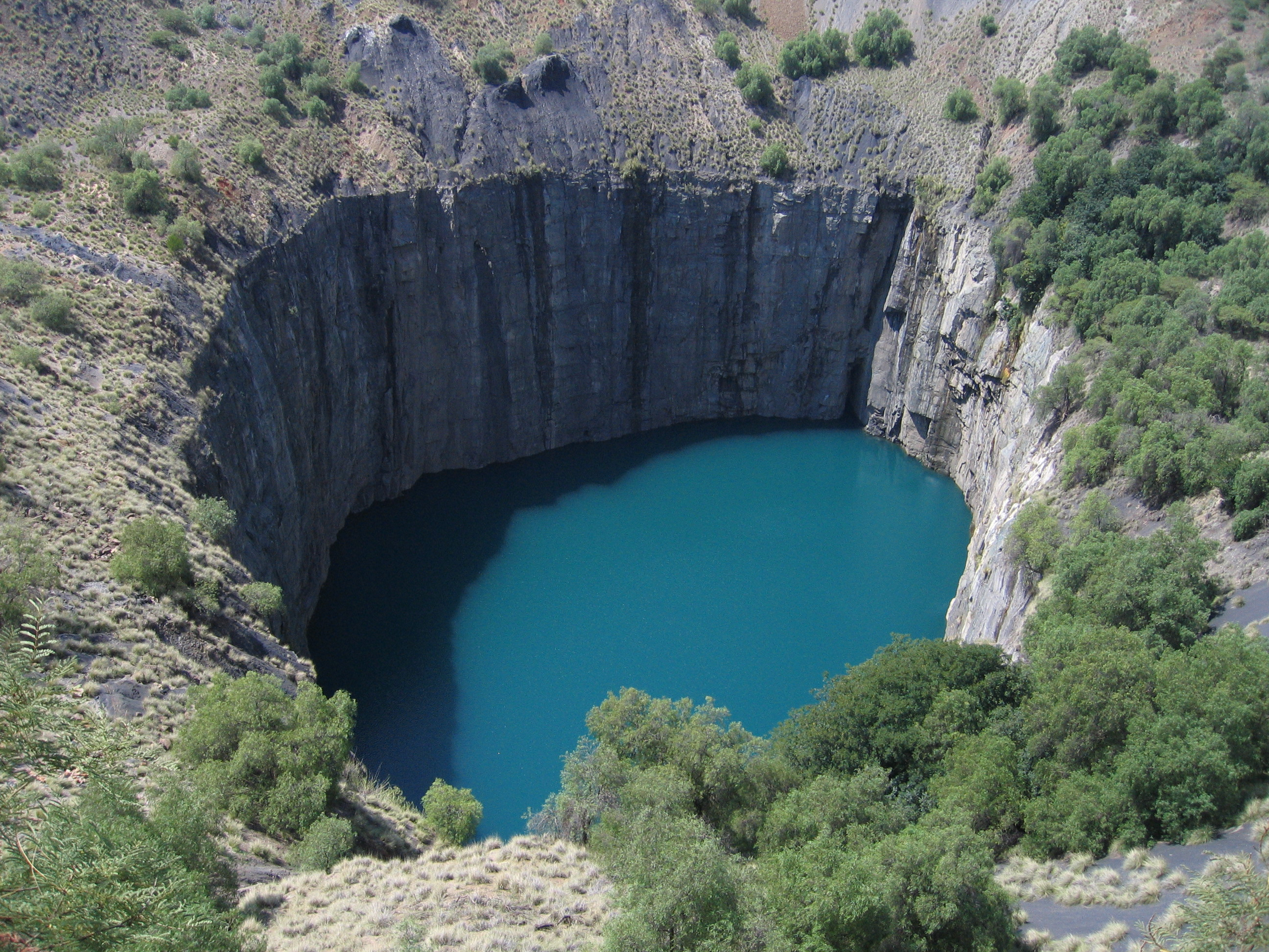 Open-pit diamond mine (known as the Big Hole or Kimberley Mine) in Kimberley, South Africa.